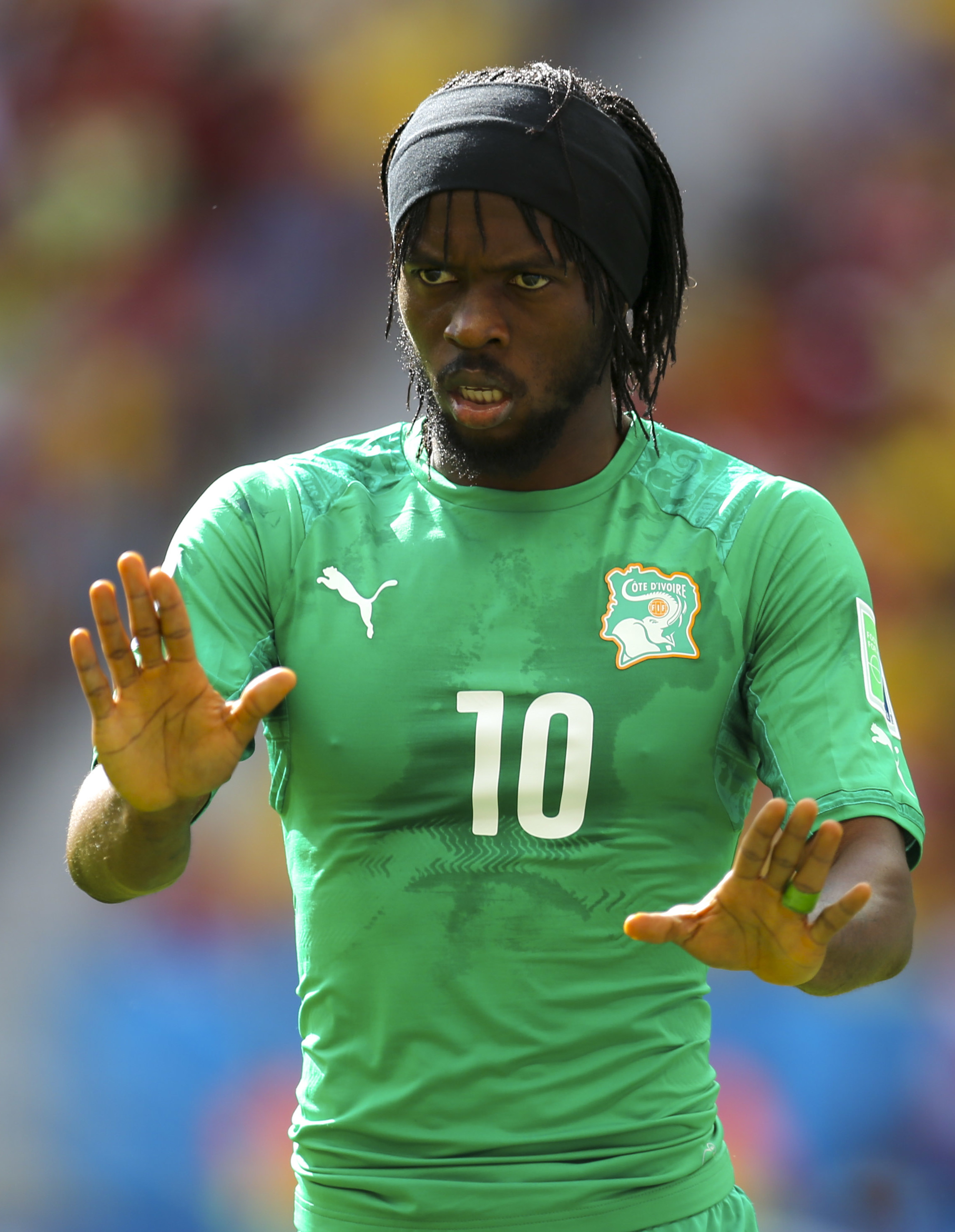 Colombia and Ivory Coast match at the FIFA World Cup 2014-06-19